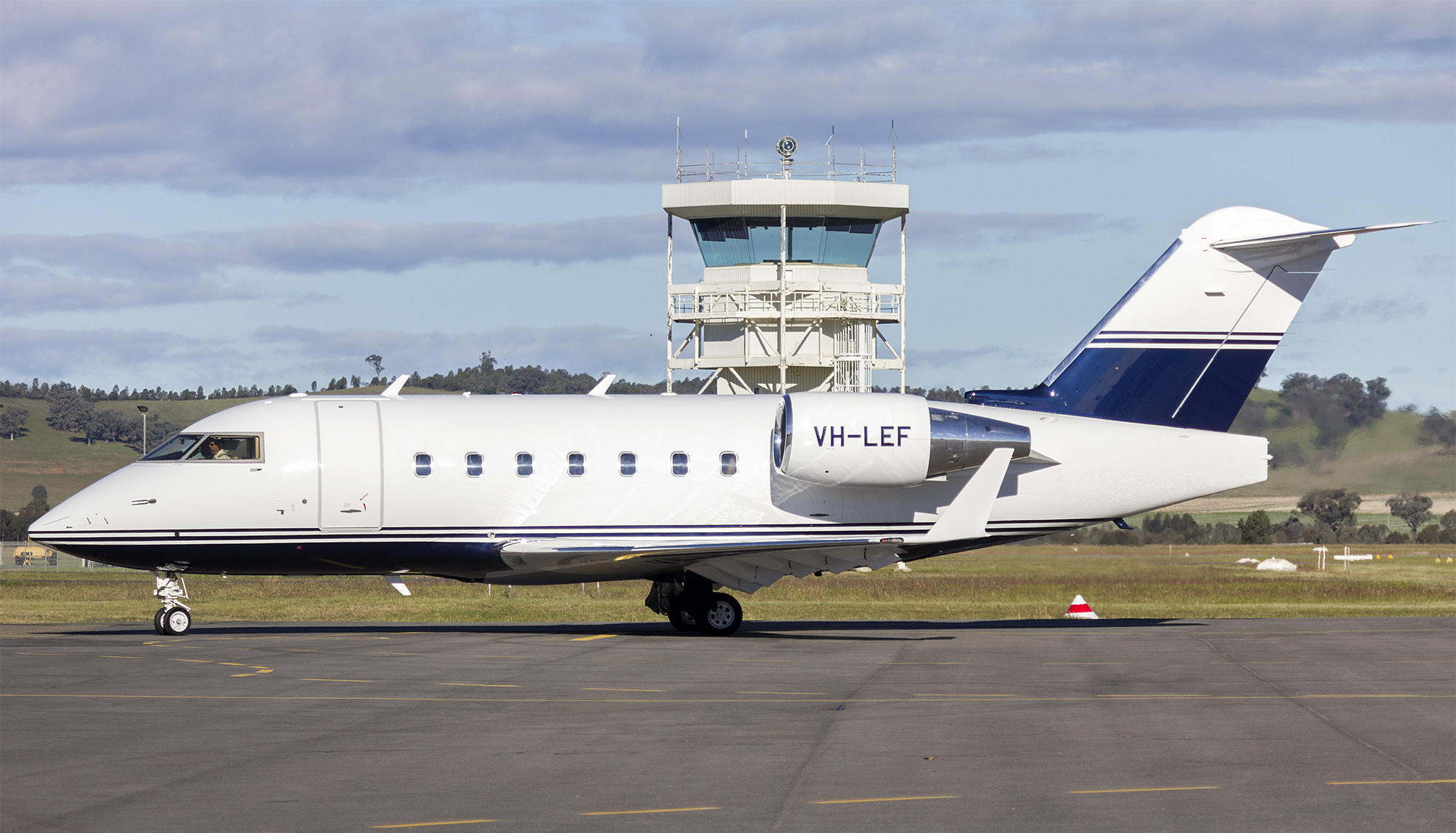 Air National Australia (VH-LEF) Canadair CL-604 Challenger taxiing at Wagga Wagga Airport.